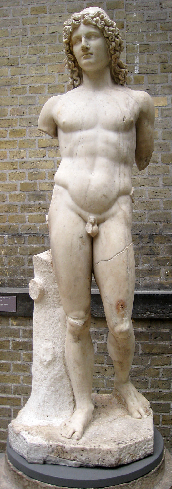 Statue of one of the Dioskouroi. From the Ny Carlsberg Glyptotek collection